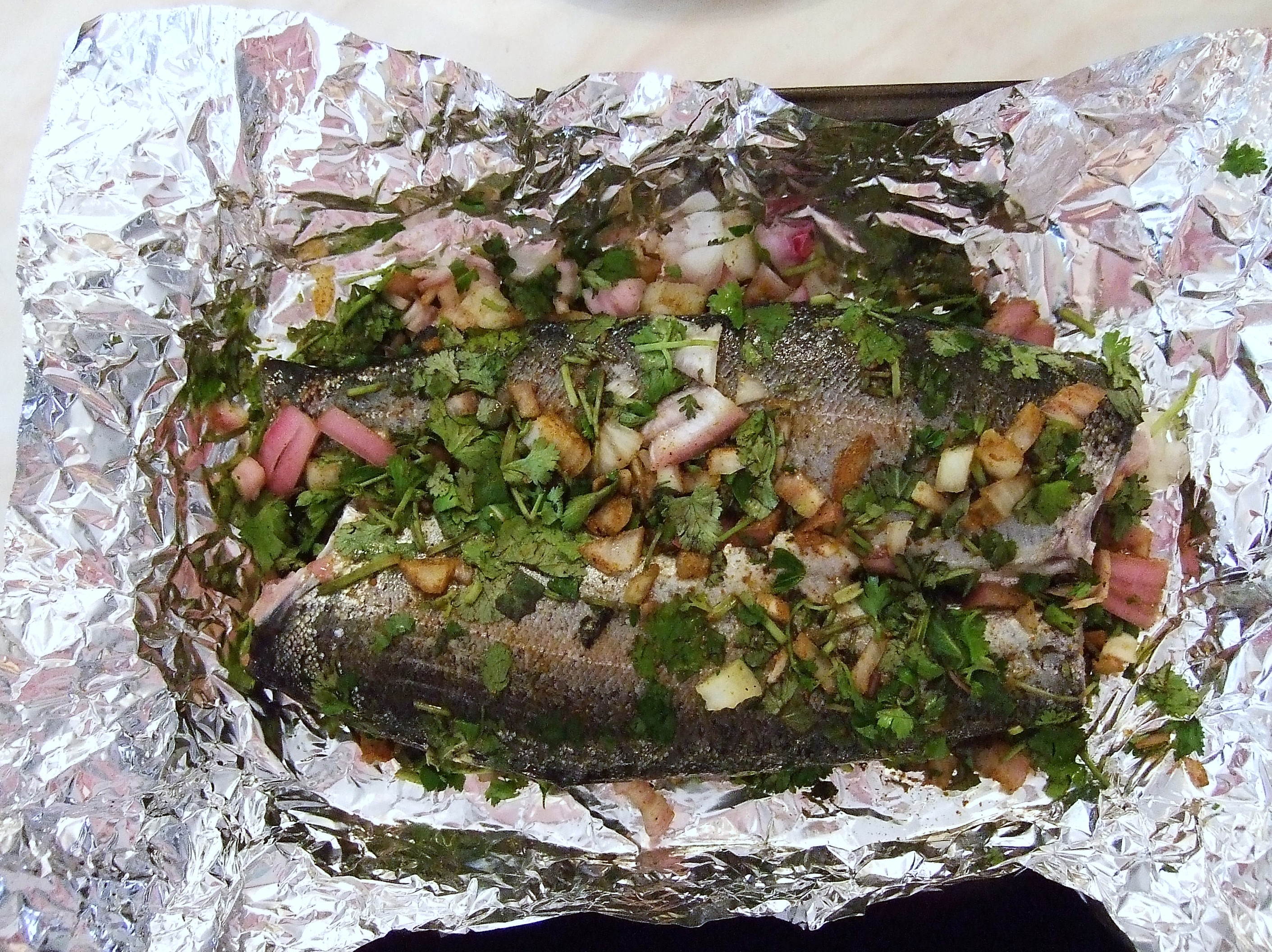 Ishkhan fish (Salmo ischchan) prepared before baking